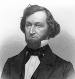 Picture of Thomas H. Seymour